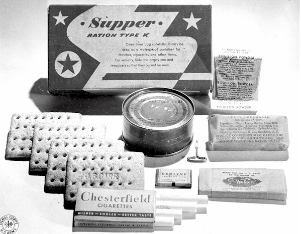 K-ration supper unit. The K-ration was an individual daily combat food ration which was introduced by the United States Army during World War II.